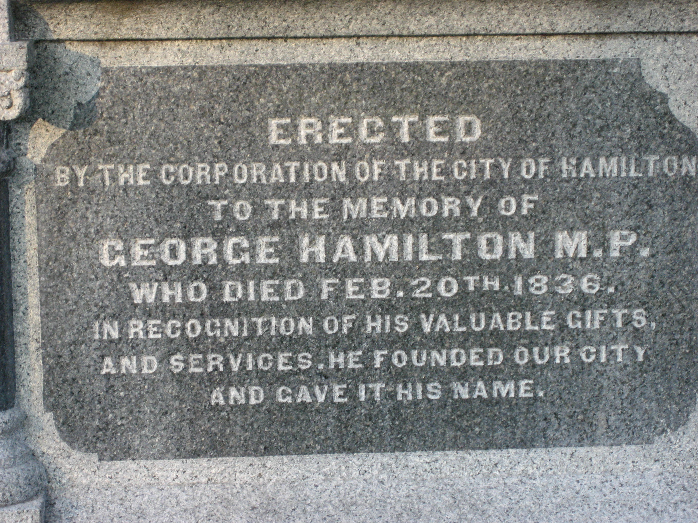 George Hamilton tombstone, Hamilton Cemetery, City founder of Hamilton, Ontario